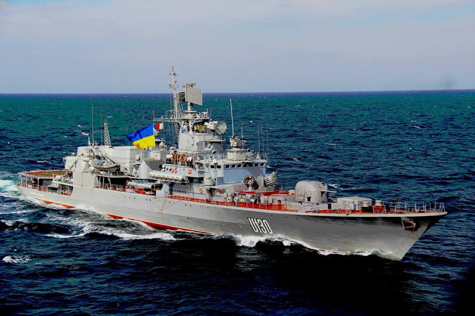 Ukrainian navy frigate Hetman Sahaydachniy Navy by Pavlo Parfenuk